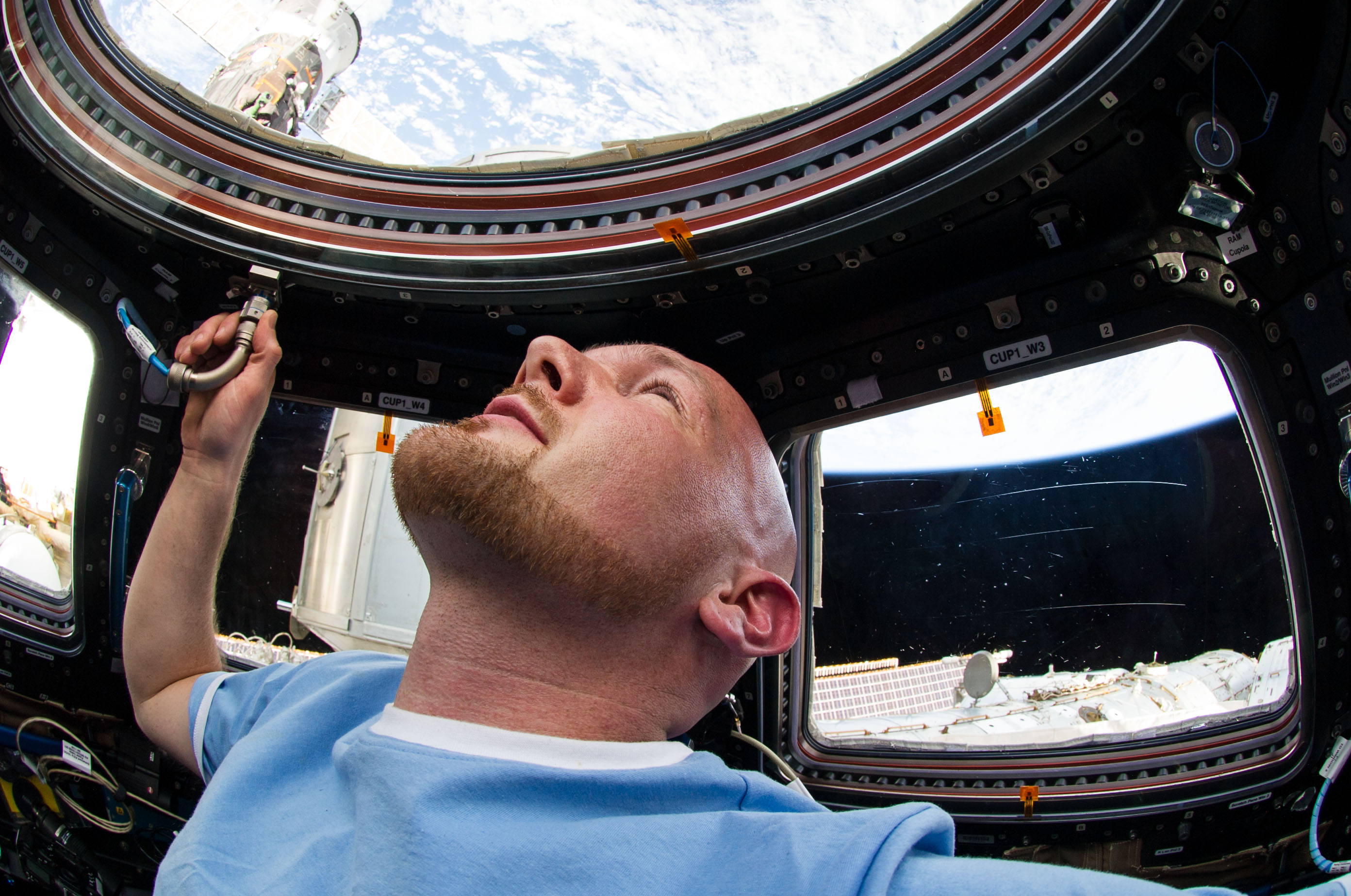 European Space Agency astronaut Alexander Gerst, Expedition 40 flight engineer, appears to enjoy his view of Earth through the windows in the Cupola of the International Space Station.